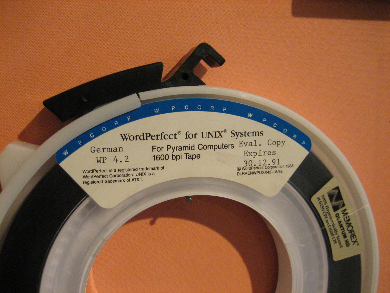 WordPerfect for UNIX Systems, version 4.2 German, for Pyramid computers, 1600 bpi tape, evaluation copy distributed in 1991